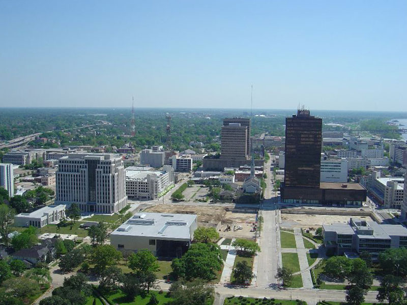 View of Baton Rouge looking south from the Louisiana Capitol